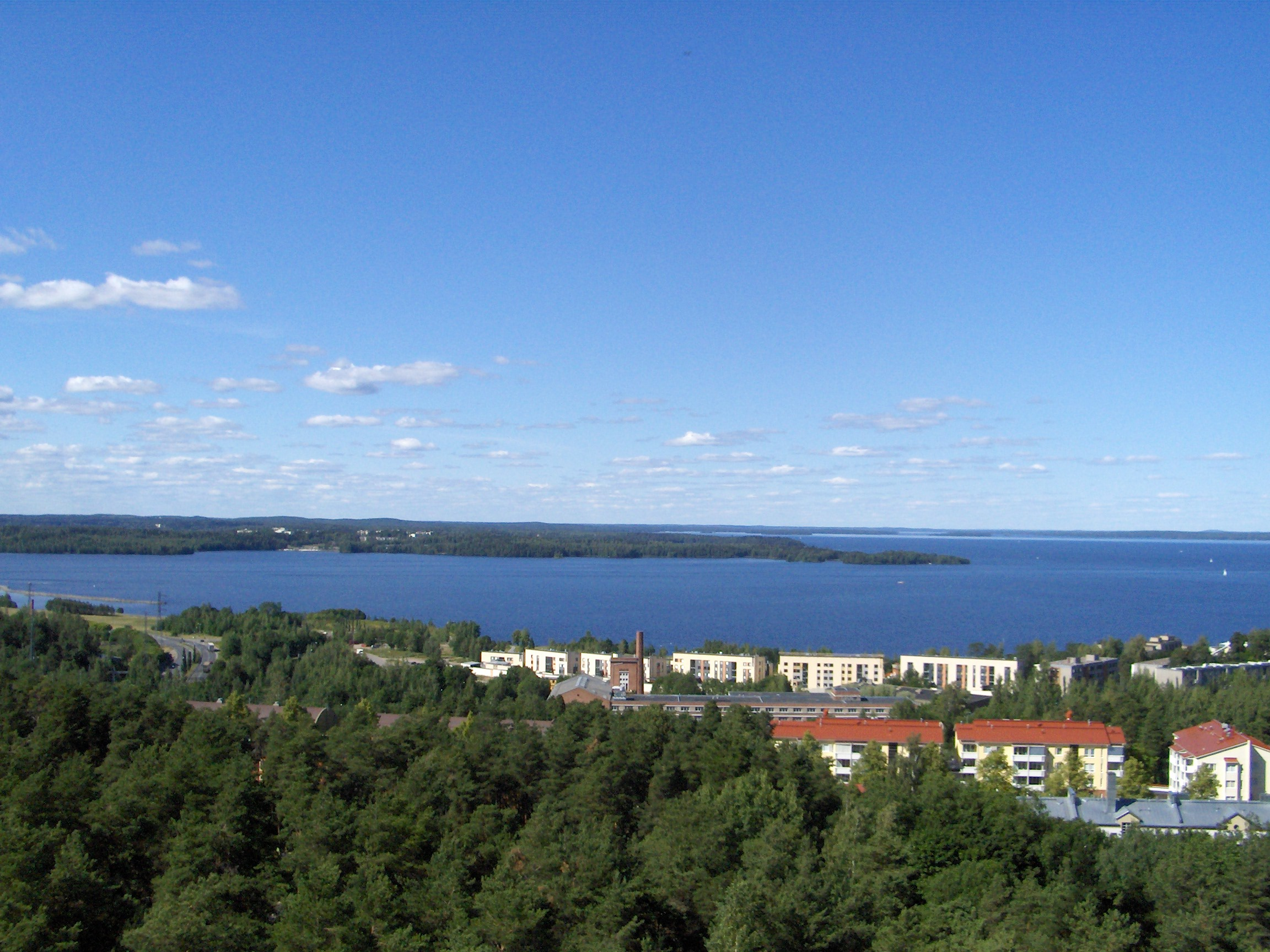 Näsijärvi lake in Tampere, Finland